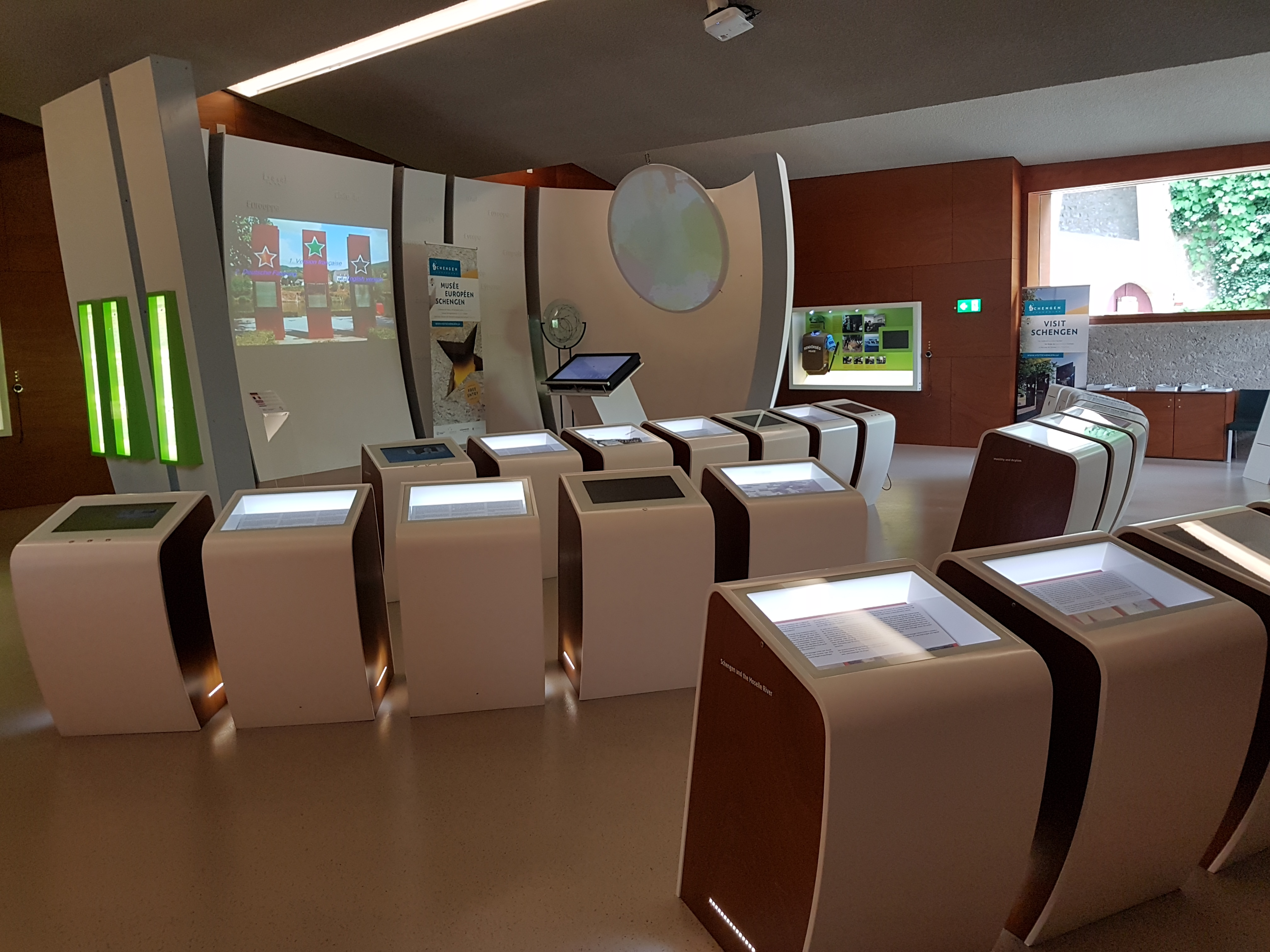 The European Museum in Schengen presents a permanent exhibition on the foundations of the European Union. The building where the museum is located was designed by the architecture office of François Valentiny.